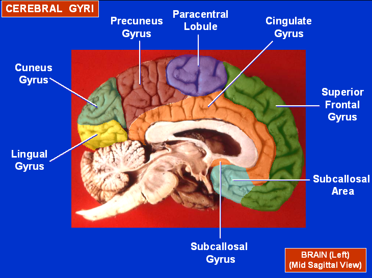 Map of Gryi of human left hemisphere.